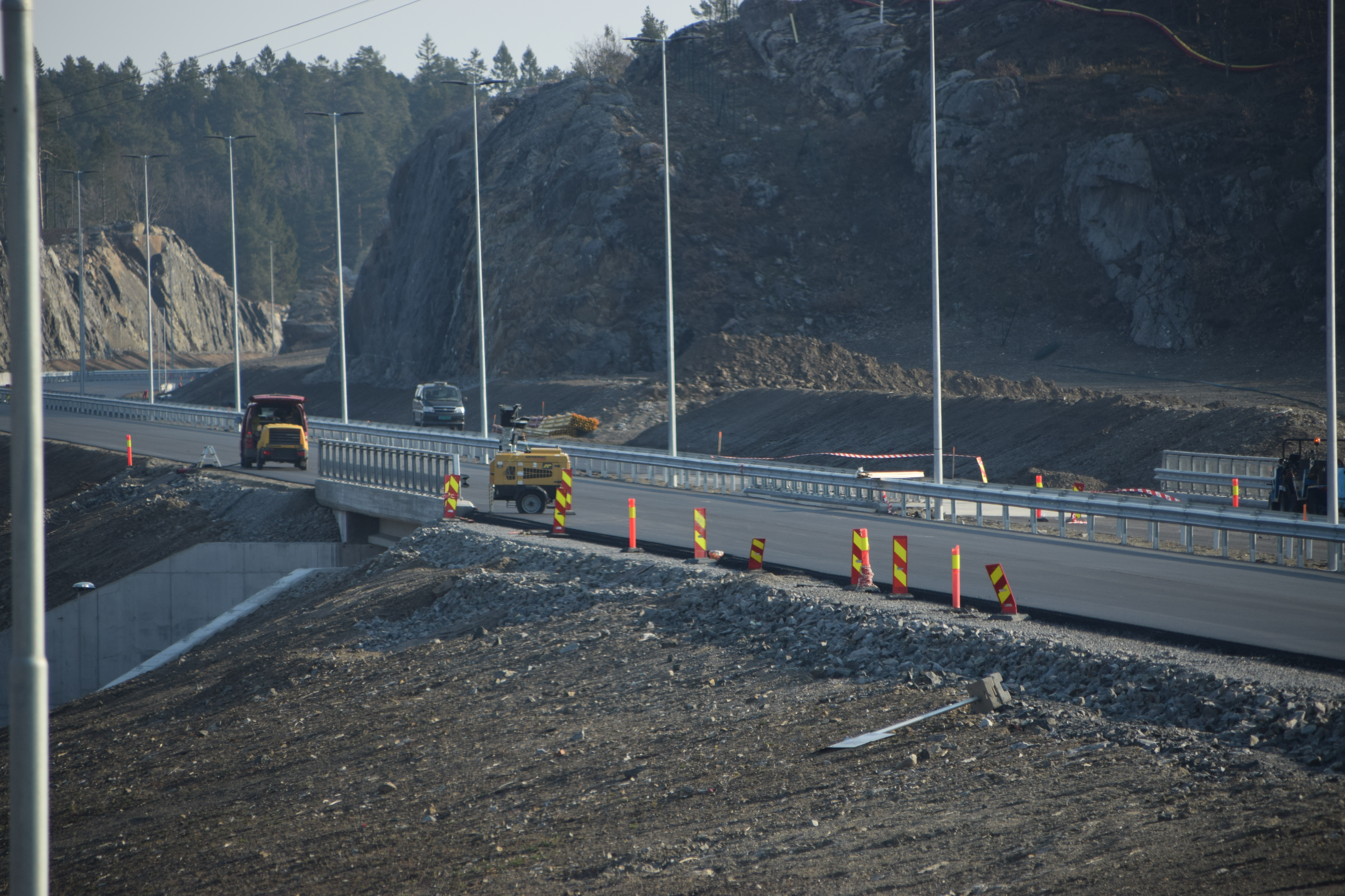 Part of the new E18 at Stølen in Arendal